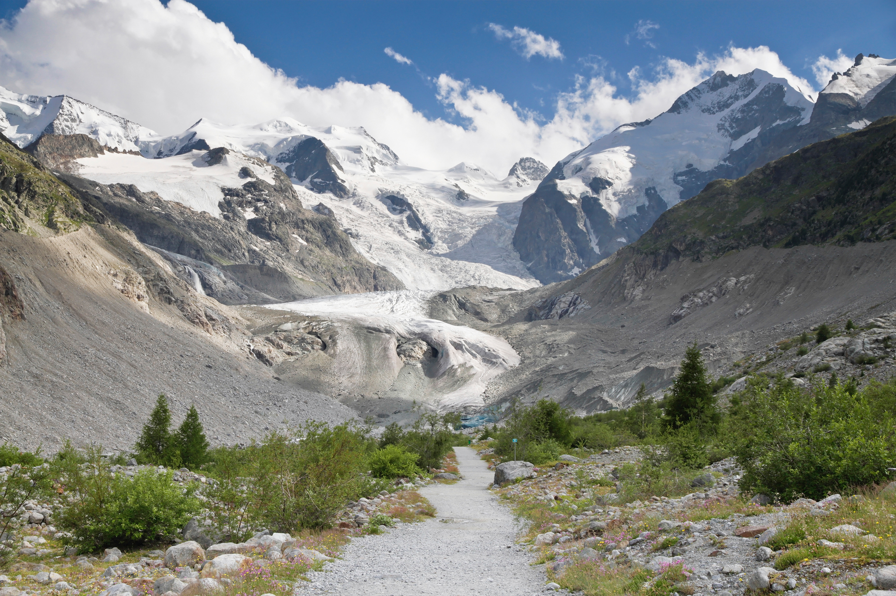 A view towards Morteratsch Glacier from a hiking trail in Bernina Range, Graubünden, Switzerland in 2012 July.